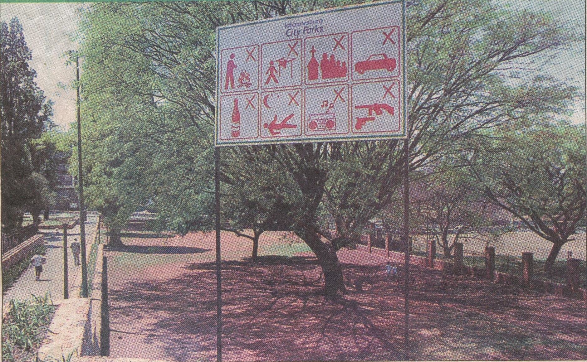 The Donald Mackay Park in Hillbrow Johannesburg. This is part of the works from the Johannesburg Heritage Foundation works given to the Joburgpedia project and other wikimedia projects.